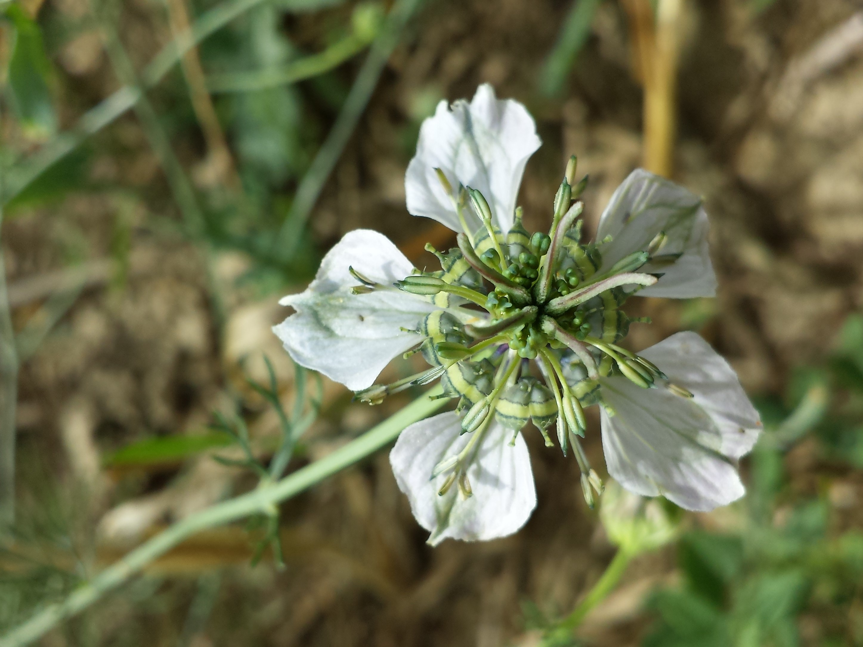 Flower Taxon: Nigella arvensis (sensu Fischer et al. EfÖLS 2008 ISBN 978-3-85474-187-9) Location: Haulesbergen, Ulrichskirchen-Schleinbach, district Mistelbach, Lower Austria - ca. 200 m a.s.l. Habitat: grainfield